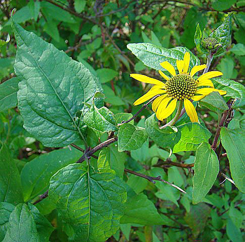 A native of the forests of southern Chile, here at the Botanical Gardens of UC Berkeley. In context at